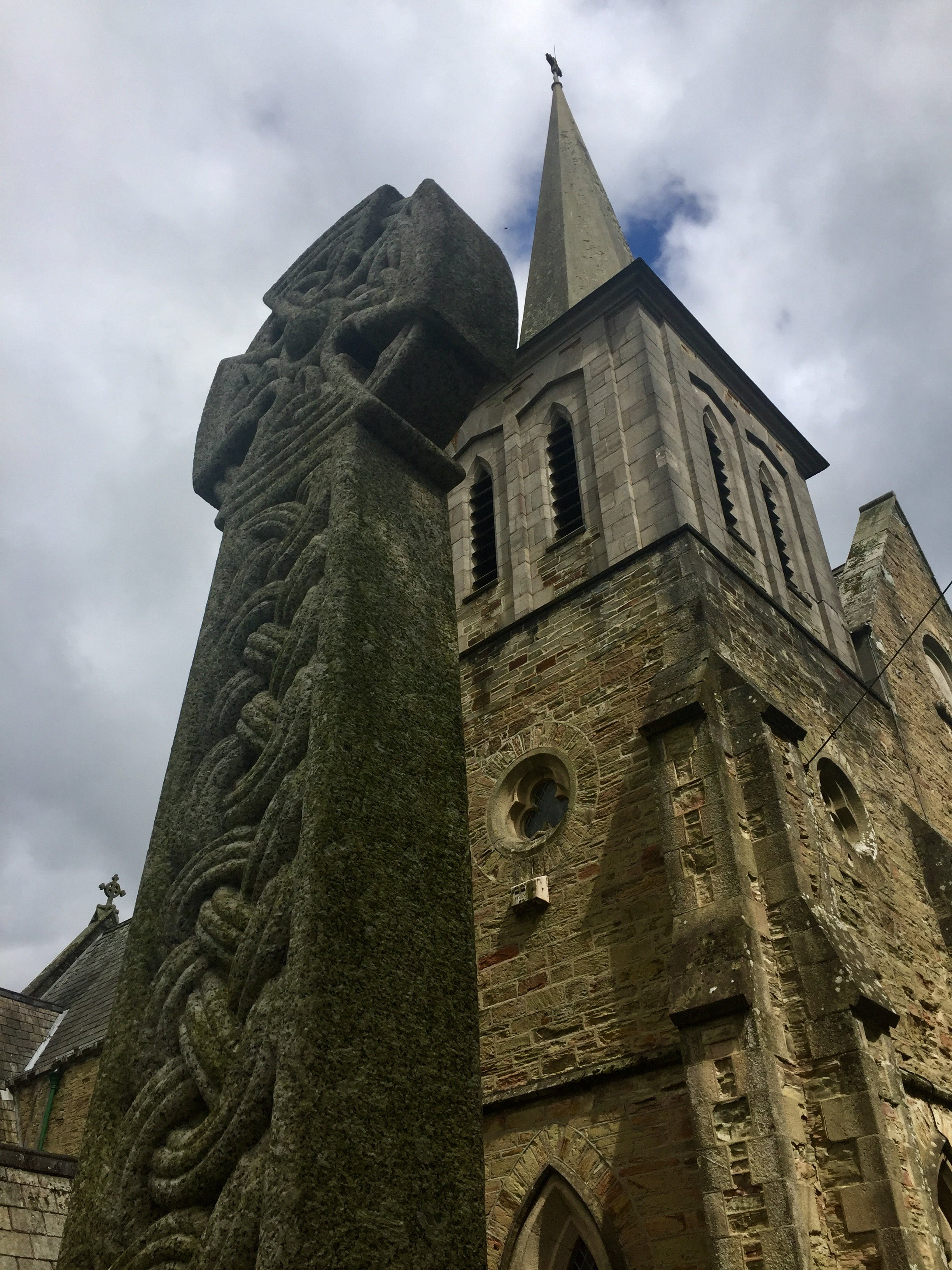 Celtic cross and west tower of St Paul's parish church, Charlestown, Cornwall, seen from the west